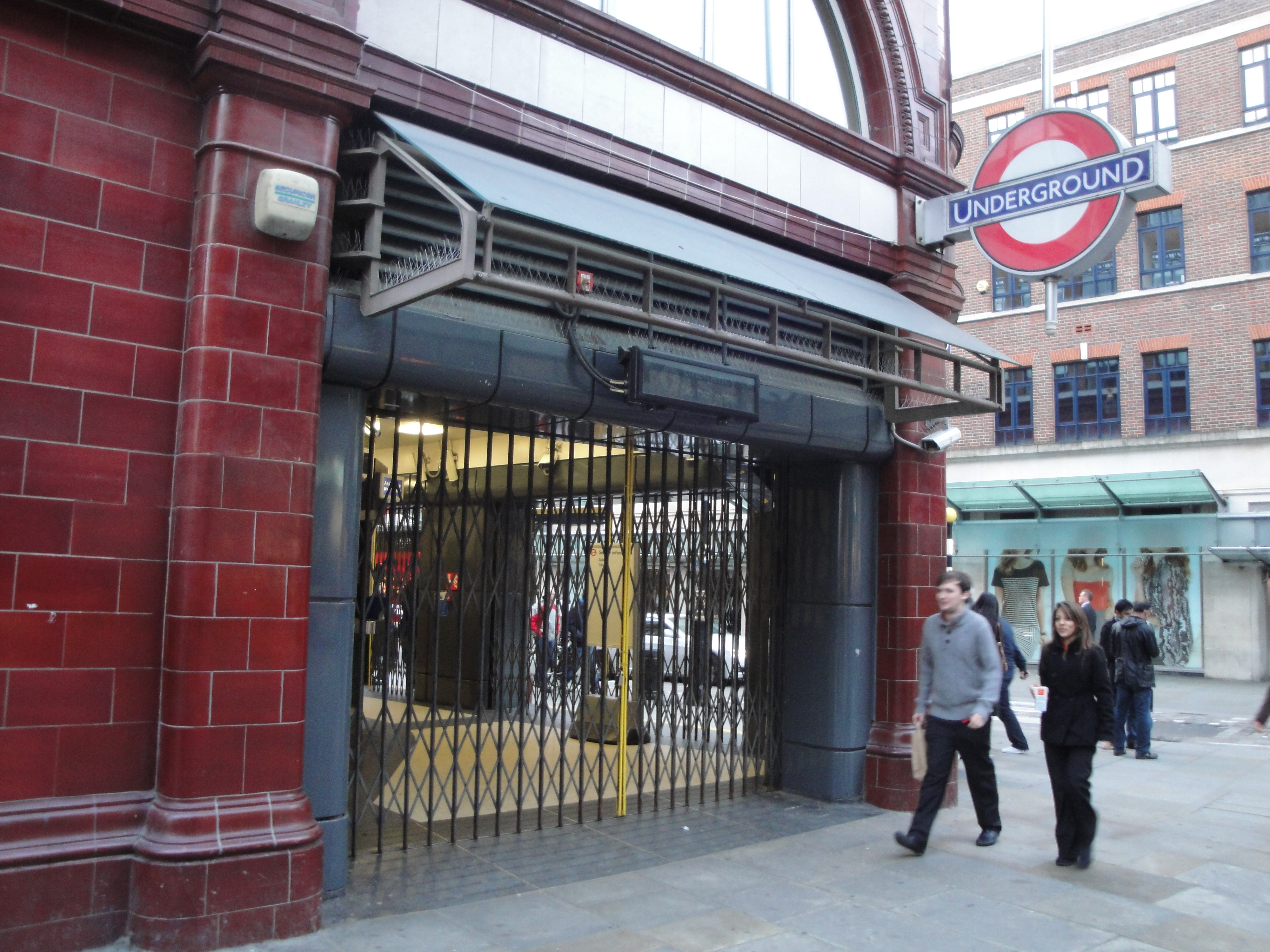 Covent Garden tube station, Covent Garden, Westminster (borough), London, seen closed during the Boxing Day 2011 tube strike.